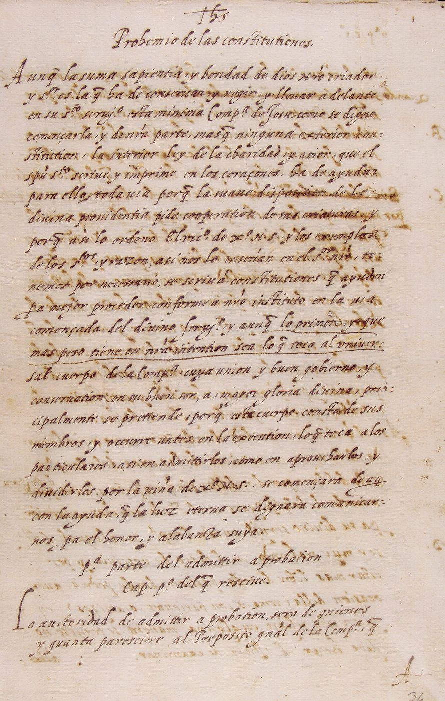 Copy of the original page of the preamble of the Constitutions of the Society of Jesus (handwriting of St Ignatius of Loyola)